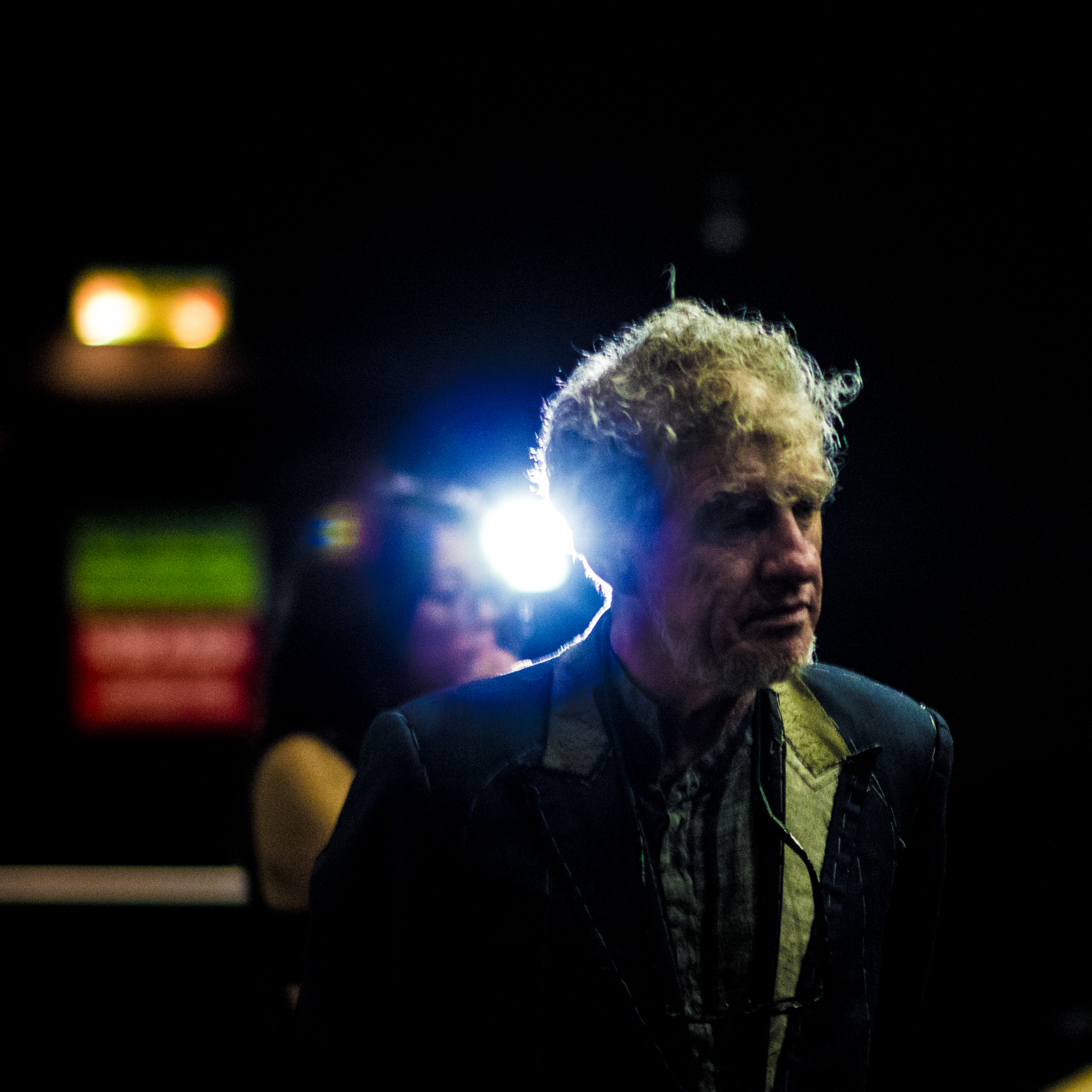 Christopher Doyle at Camerimage 23, Bydgoszcz- Poland 2015 in the presentation of the documentary "Hong Kong Trilogy: Preschooled Preoccupied Preposterous"